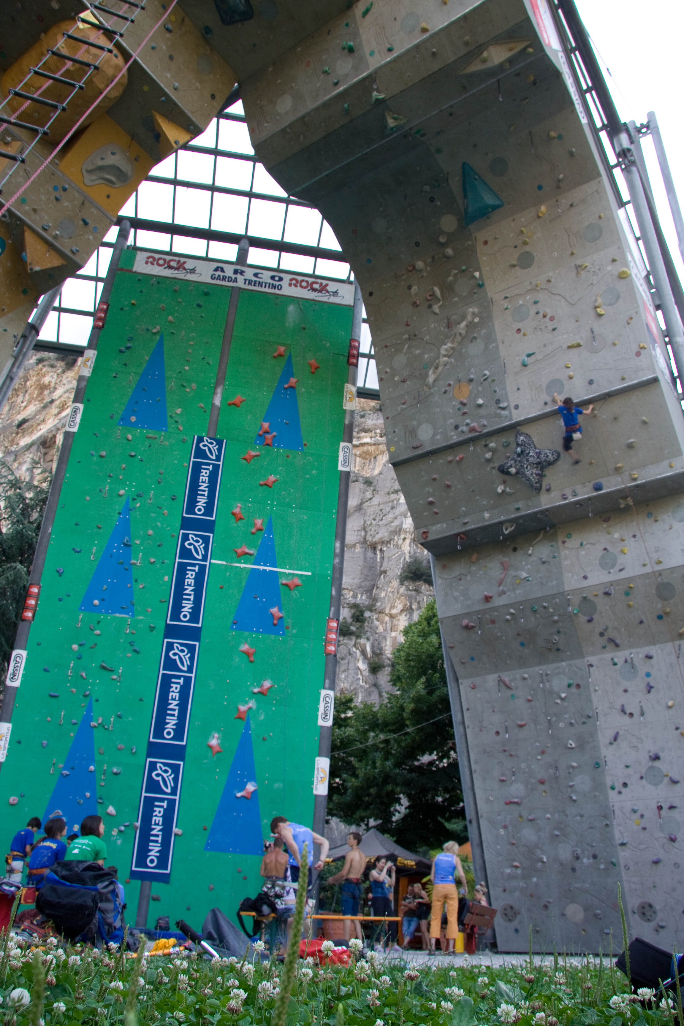 Climbing Stadium - Arco, Italy